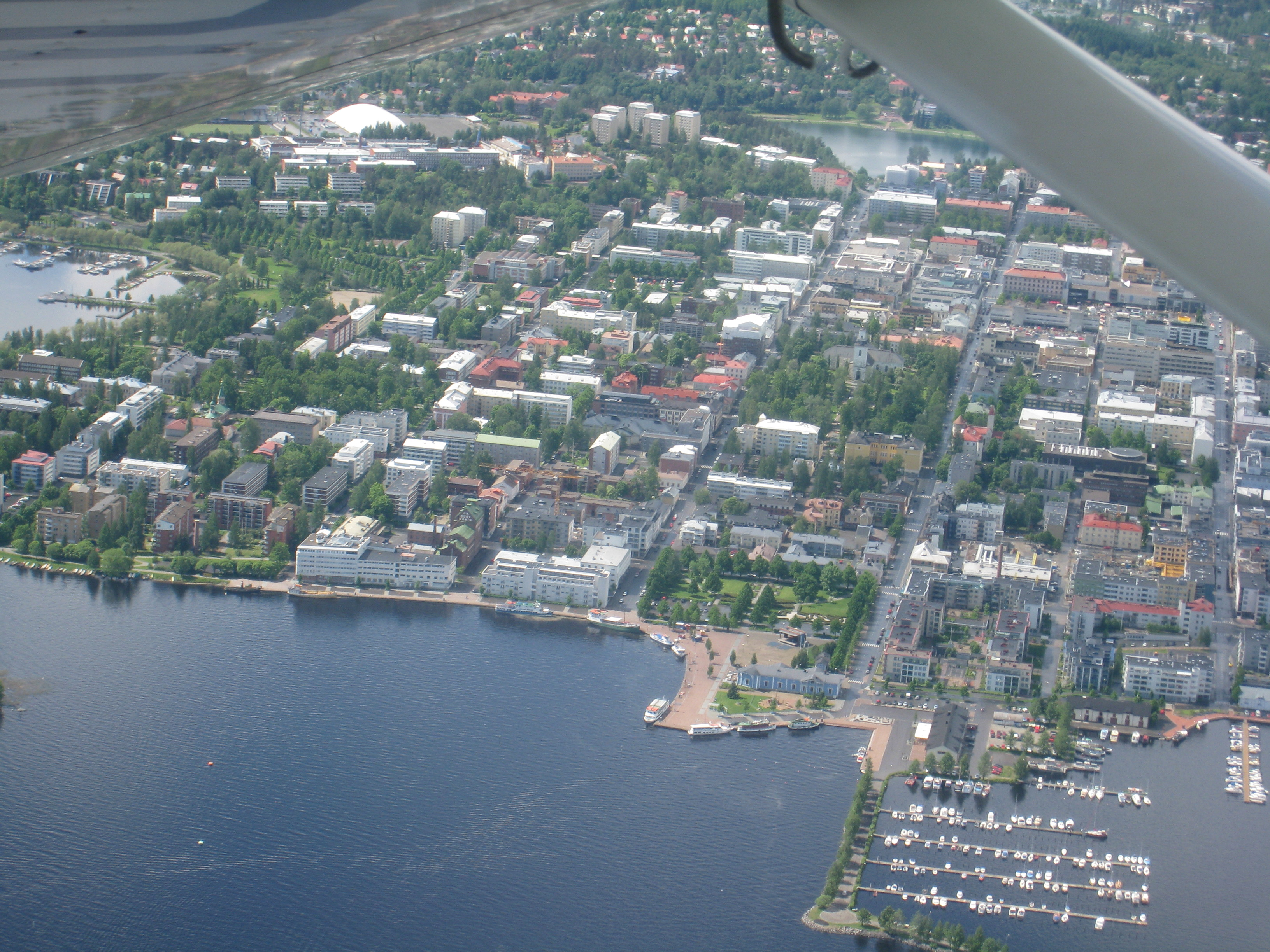 Aerial photo of Kuopio, Finland, harbor in the lower right corner